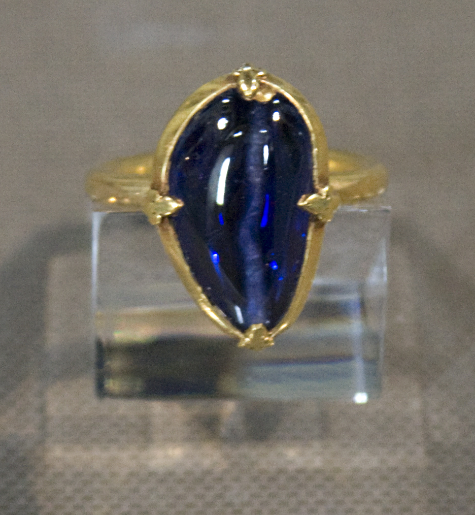 Gold ring from Winchester Cathedral in Winchester, England. Exhibit tag reads: "Ring, Late 13th century. Gold set with a sapphire. 105. This ring was found in the grave of Henry Woodlock, Bishop of Winchester 1305-1316. The sapphire has been pierced for suspencsion and plugged with gold. It ranks among the finest of Gothic Episcopal rings."